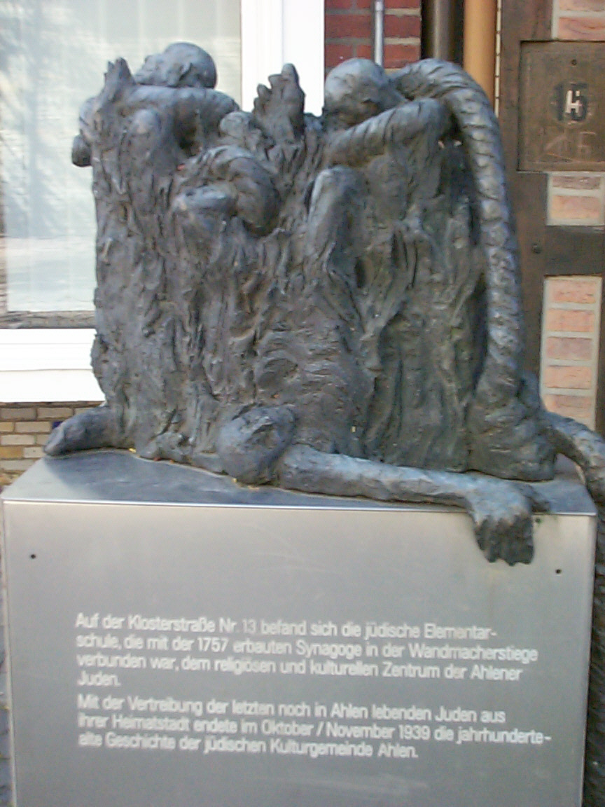 Memorial for the victims of the holocaust in the Third Reich in Ahlen, Germany.